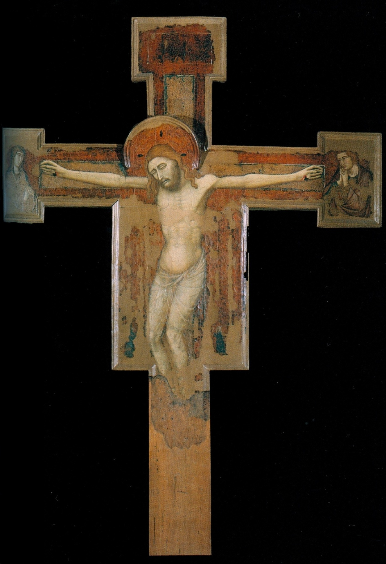 Francesco di Segna. Crocifisso. 1328-39. Buonoconvento, Museo d'Arte Sacra della Val d'Arbia.